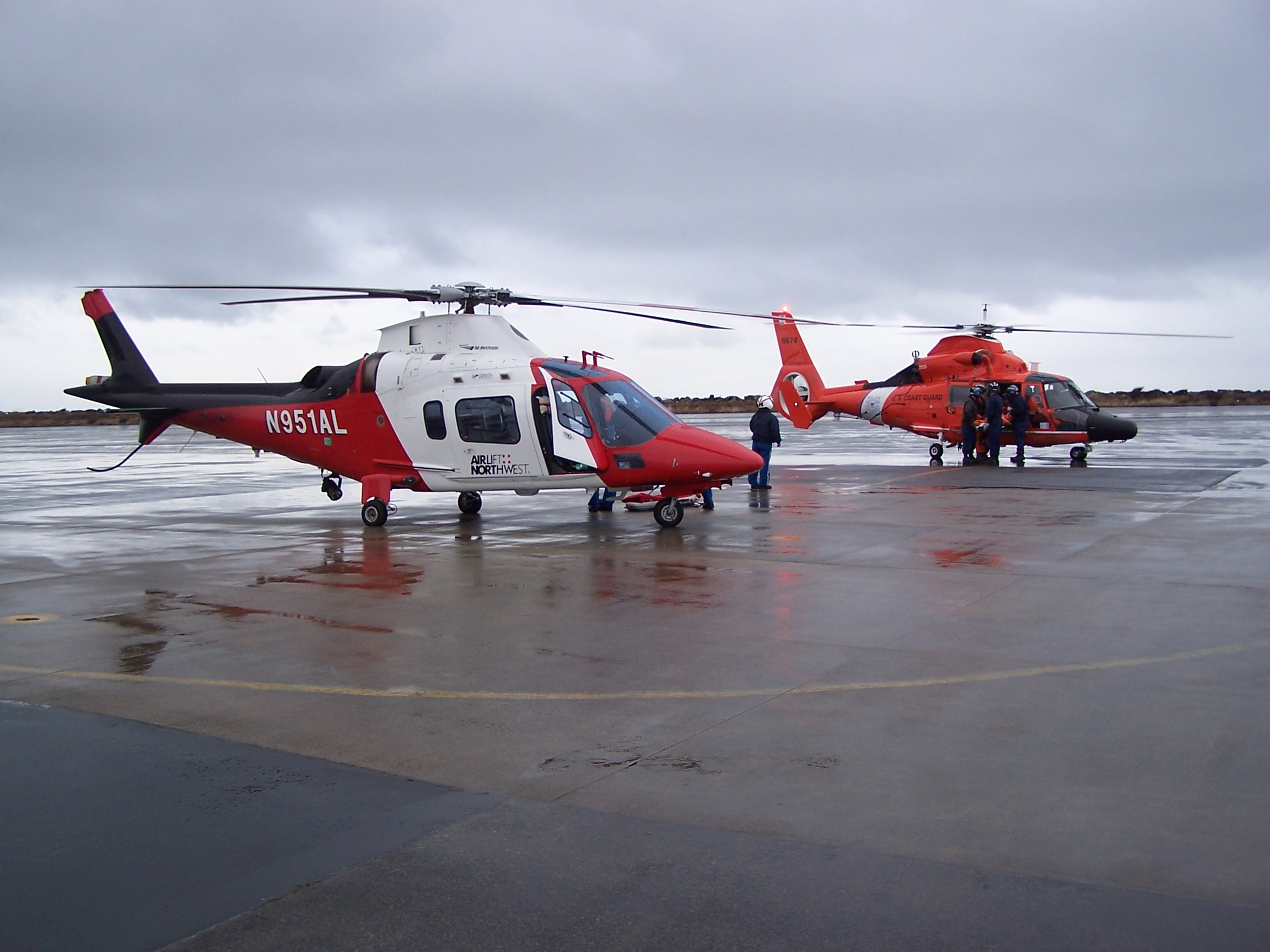 SEATTLE - In this photo released by the Coast Guard, a crew from Coast Guard Air Station Port Angeles and a crew from Airlift Northwest prepare an injured man for transport to Harborview Medical Center, here, Feb. 25, 2009. The man was injured in a logging accident near Forks.